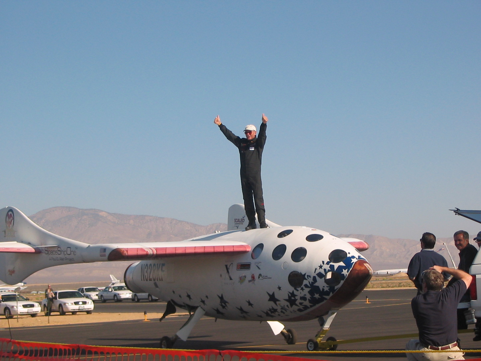 SpaceShipOne test pilot Mike Melvill after the launch in pursuit of the Ansari X Prize on September 29, 2004. Photo taken by RenegadeAven during Civil Air Patrol duties.